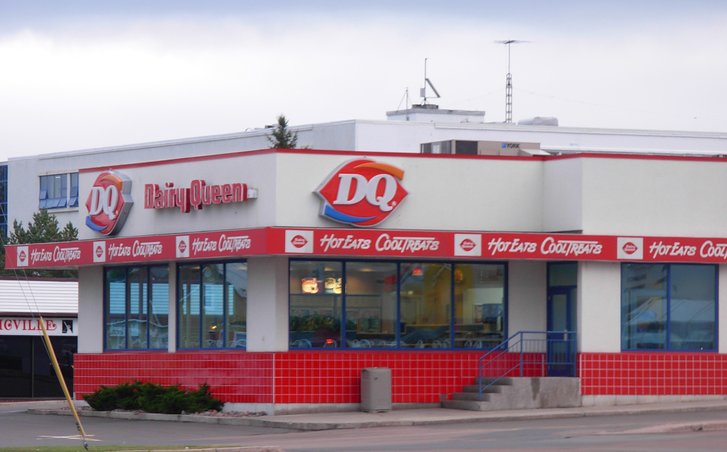 A Dairy Queen location in Moncton